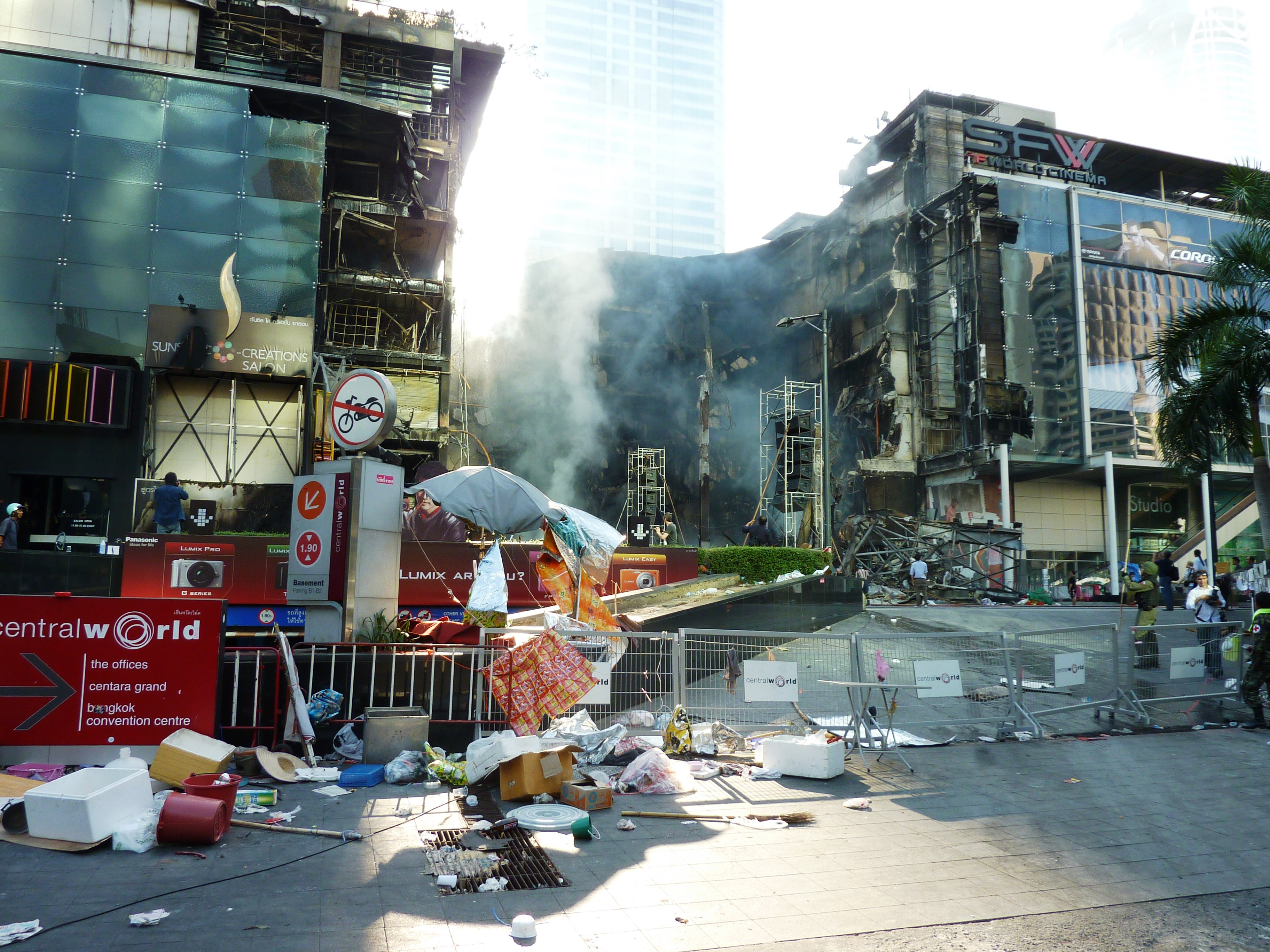 The redshirts have gone from Rajprasong, Bangkok, Thailand